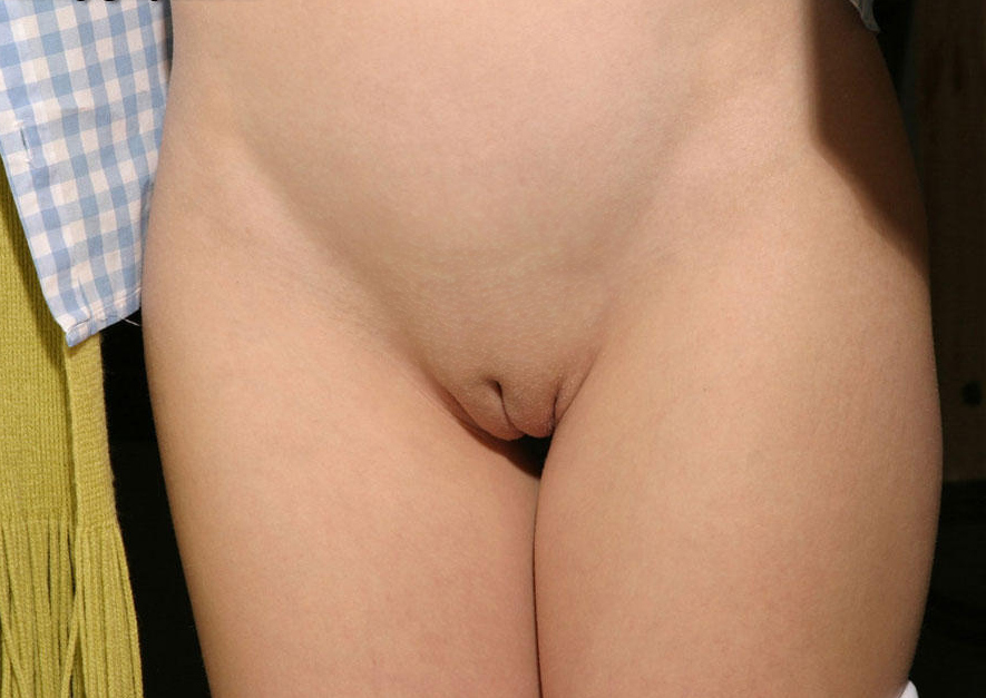 after Brazilian Waxing